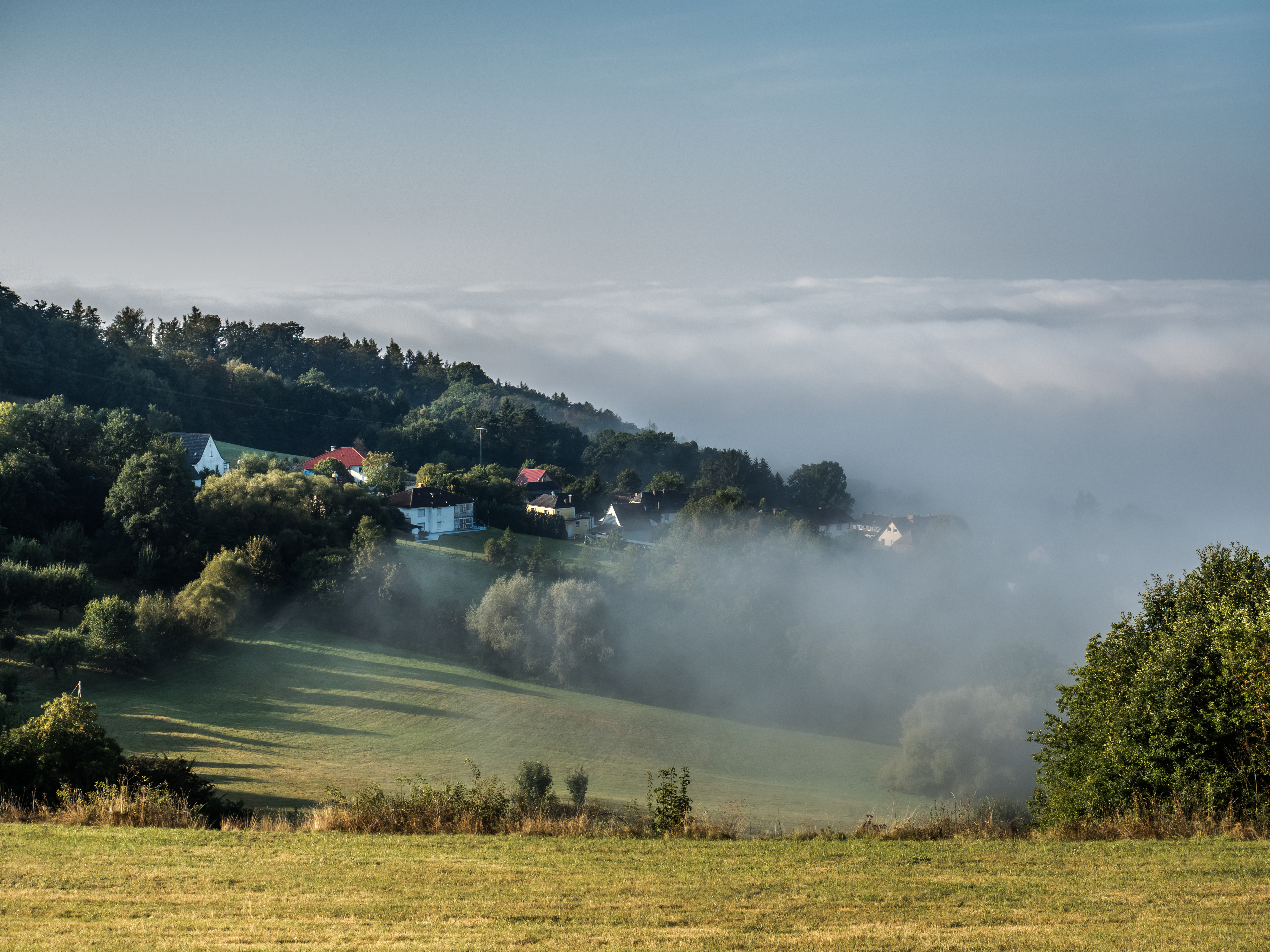 View of Neubanz in the Banzerwald